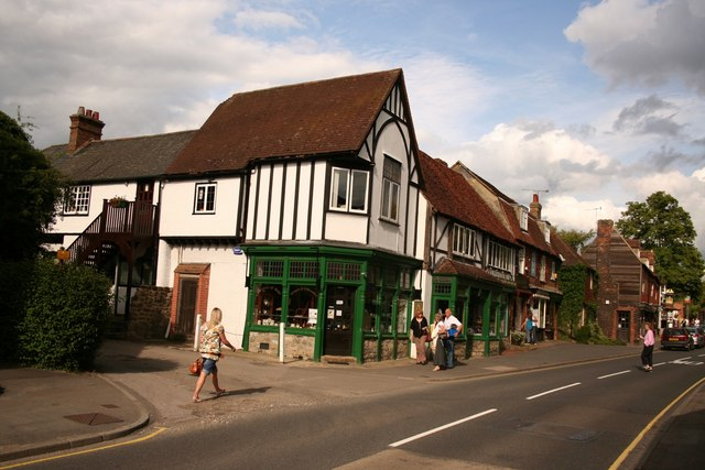 Otford High Street Shops and businesses on Otford High Street